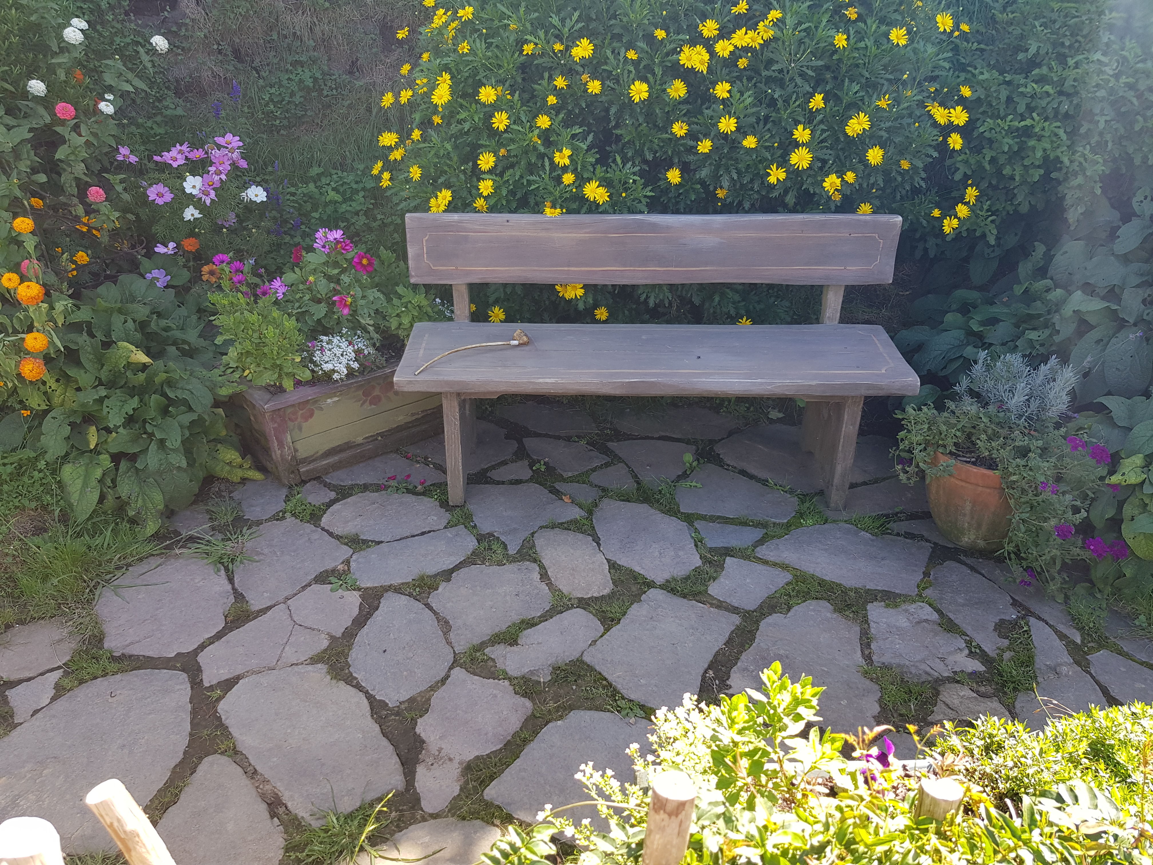 The pipe of Bilbo Baggins at Hobbiton Movie Set in Matamata, New Zealand.